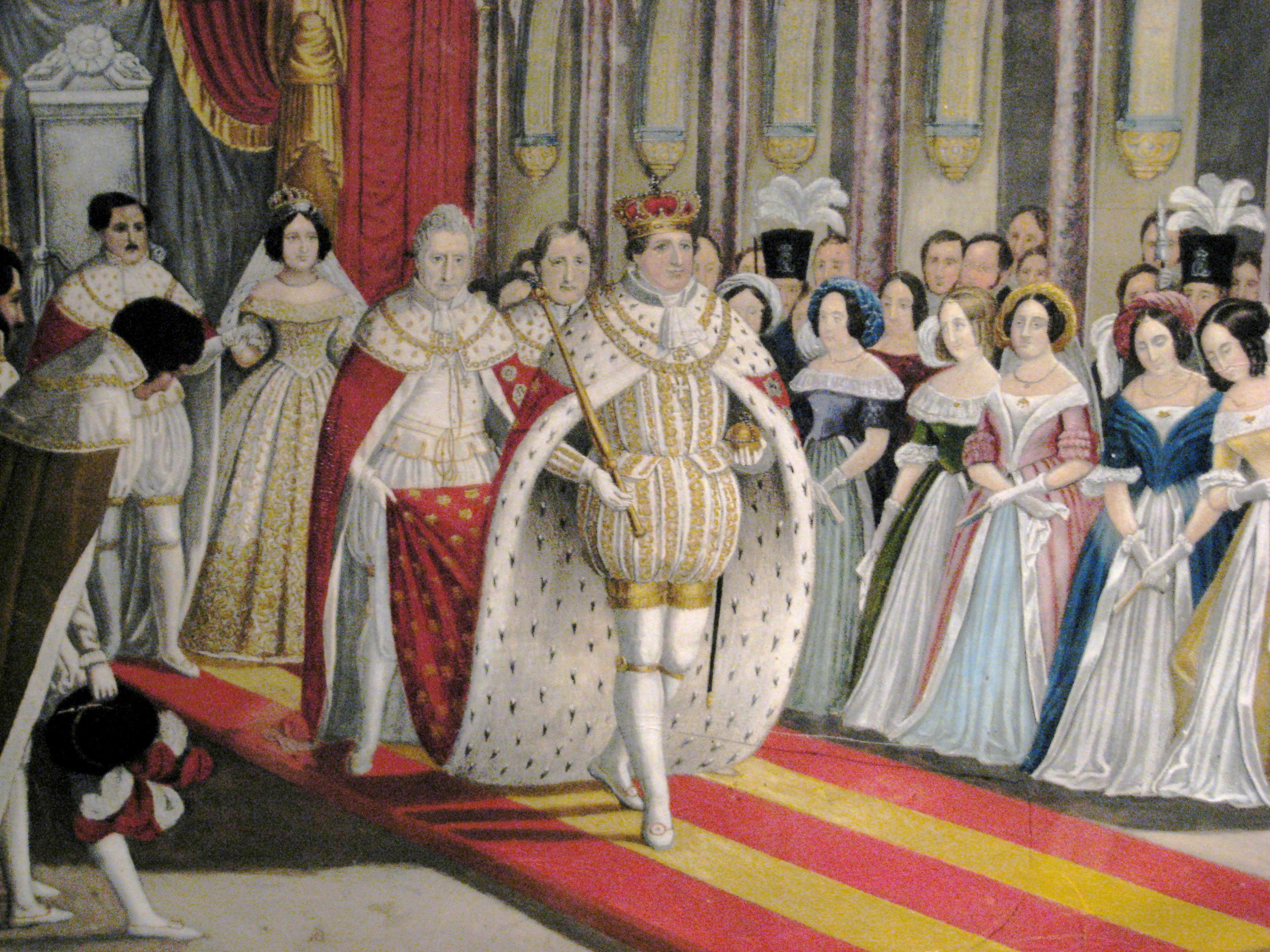 Coronation of King Christian VIII. of Denmark. Contemporary engraving (detail), 1840, artist unknown